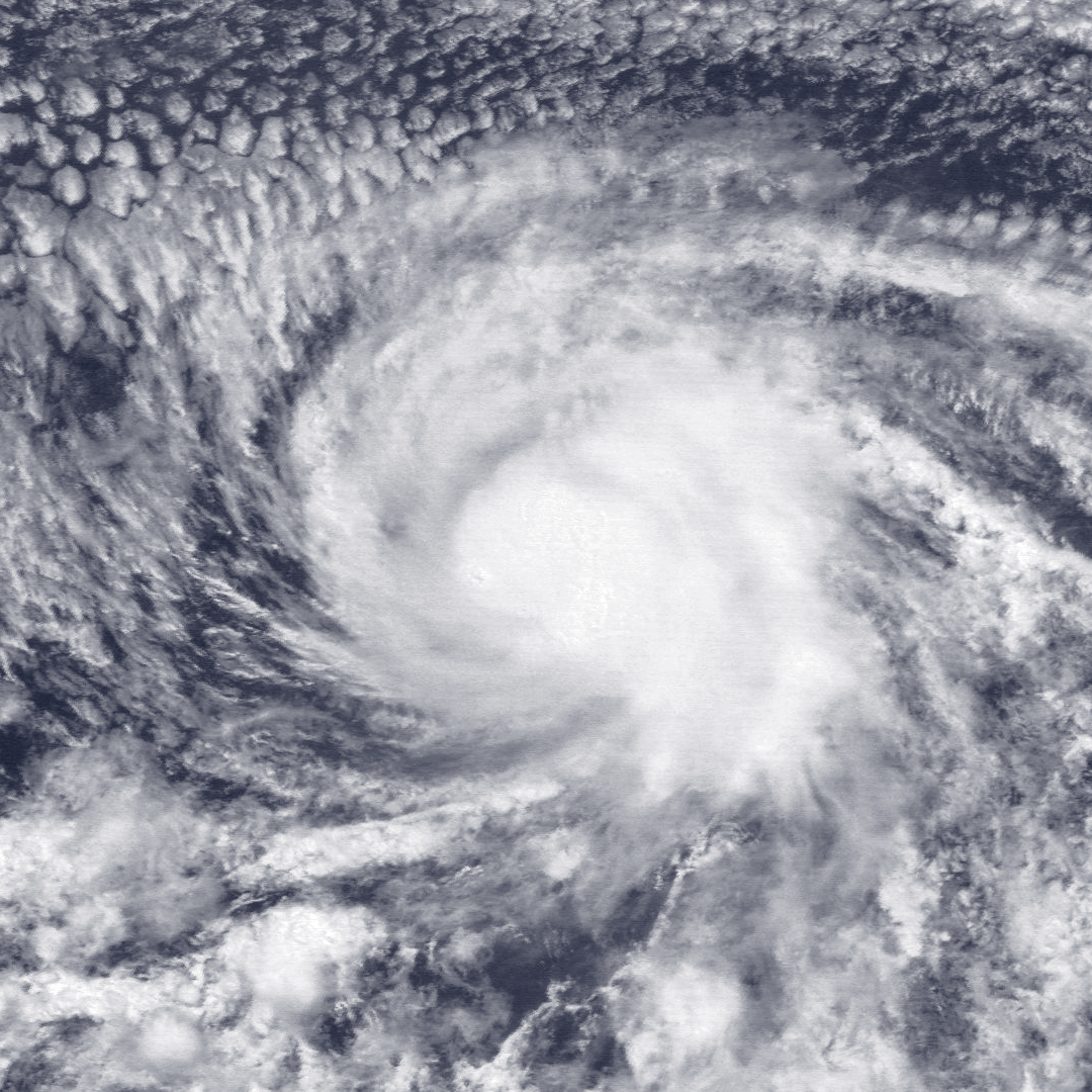 Hurricane Dalilia at peak intensity in the eastern Pacific Ocean on July 16, 1989